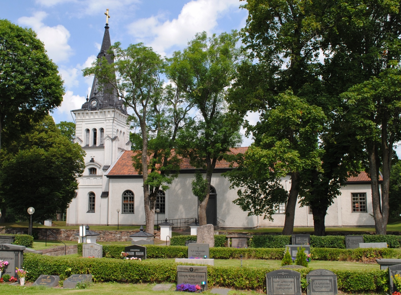 Fliseryd Church.Interior.